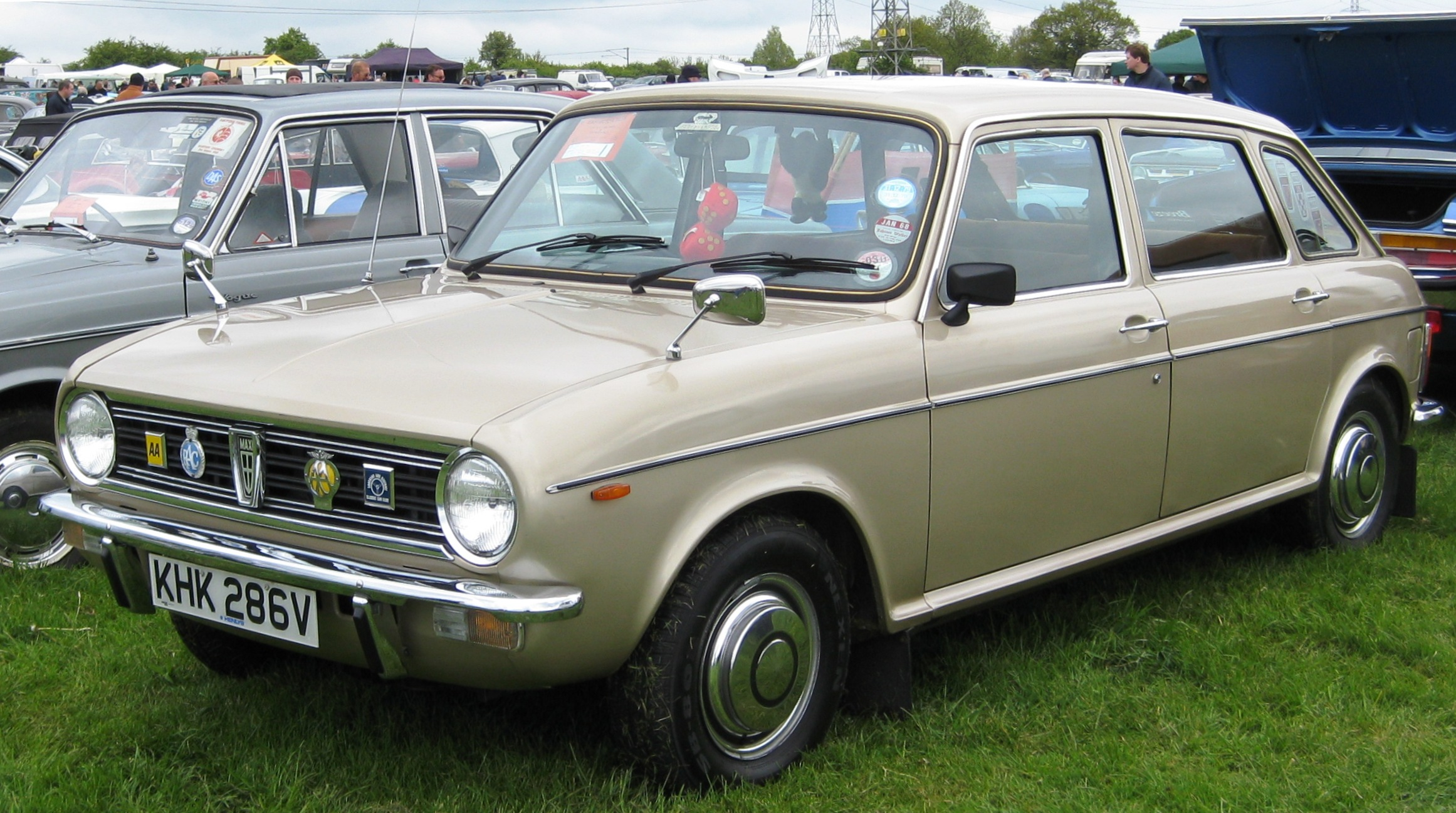 Austin Maxi 1750 HLS at Battlesbridge Classic Car Show